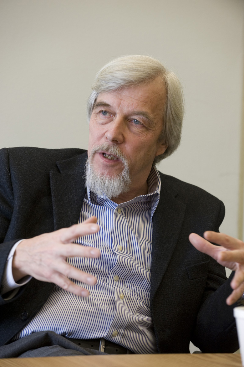 Rolf Dieter Heuer physic and professor.